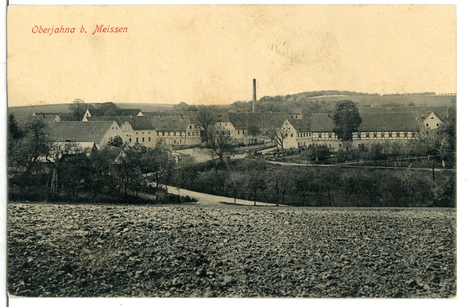 This postcard is from publisher Brück & Sohn in Meißen ( This postcard has a unique number 09924 and is available in a higher resolution at the publisher. This images was uploaded in a cooperation project between Wikipedians and the publisher.